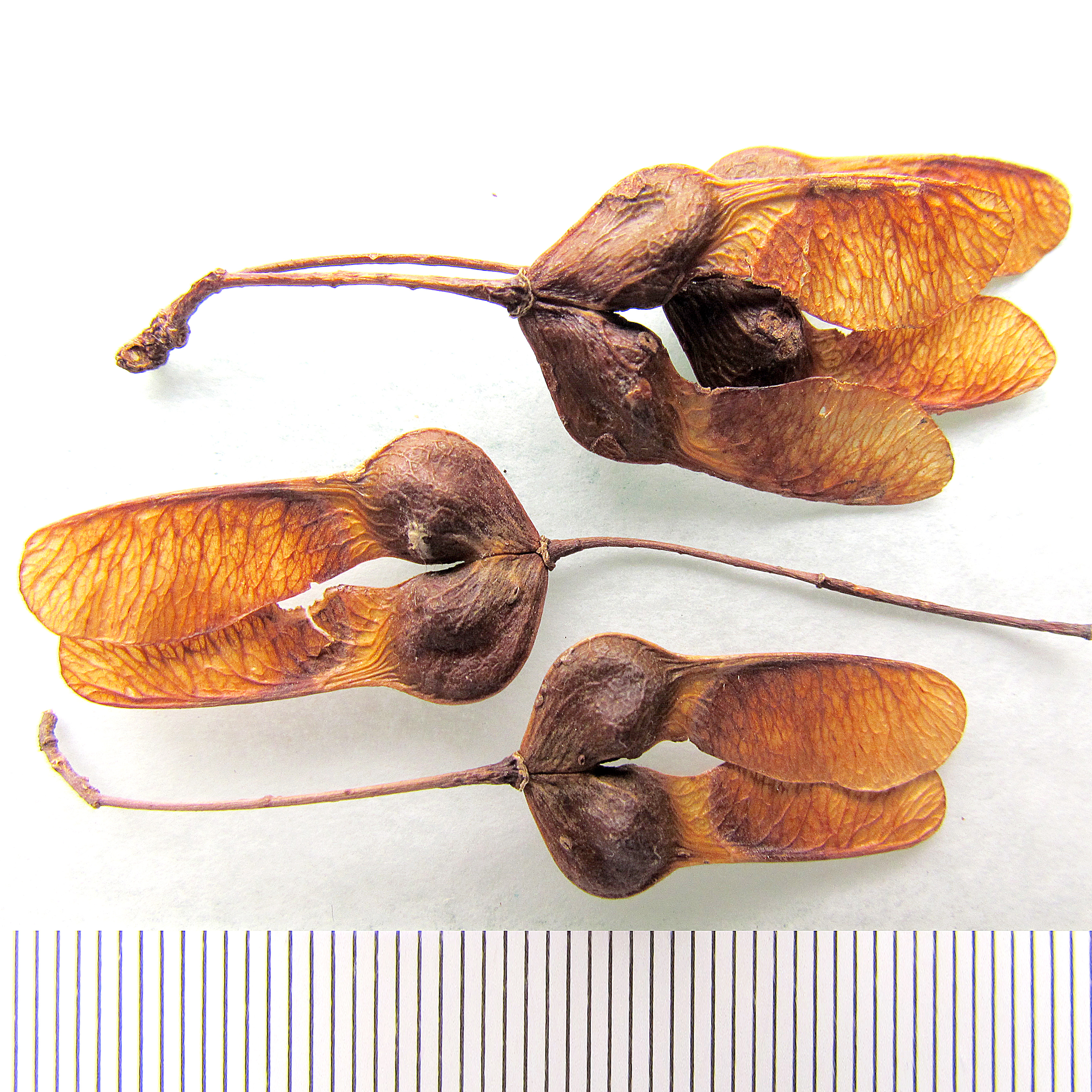 Acer monspessulanum fruith